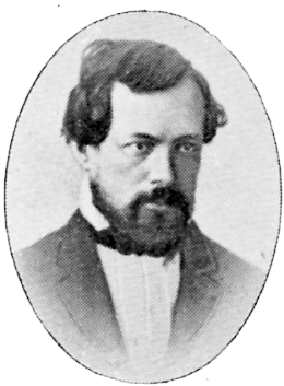 Image scanned from the book "Svenskt Porträttgalleri XX - Arkitekter, Bildhuggare, Målare m.fl. " ("Swedish Portrait Gallery XX - Architects, Sculptors, Painters, ") published 1901